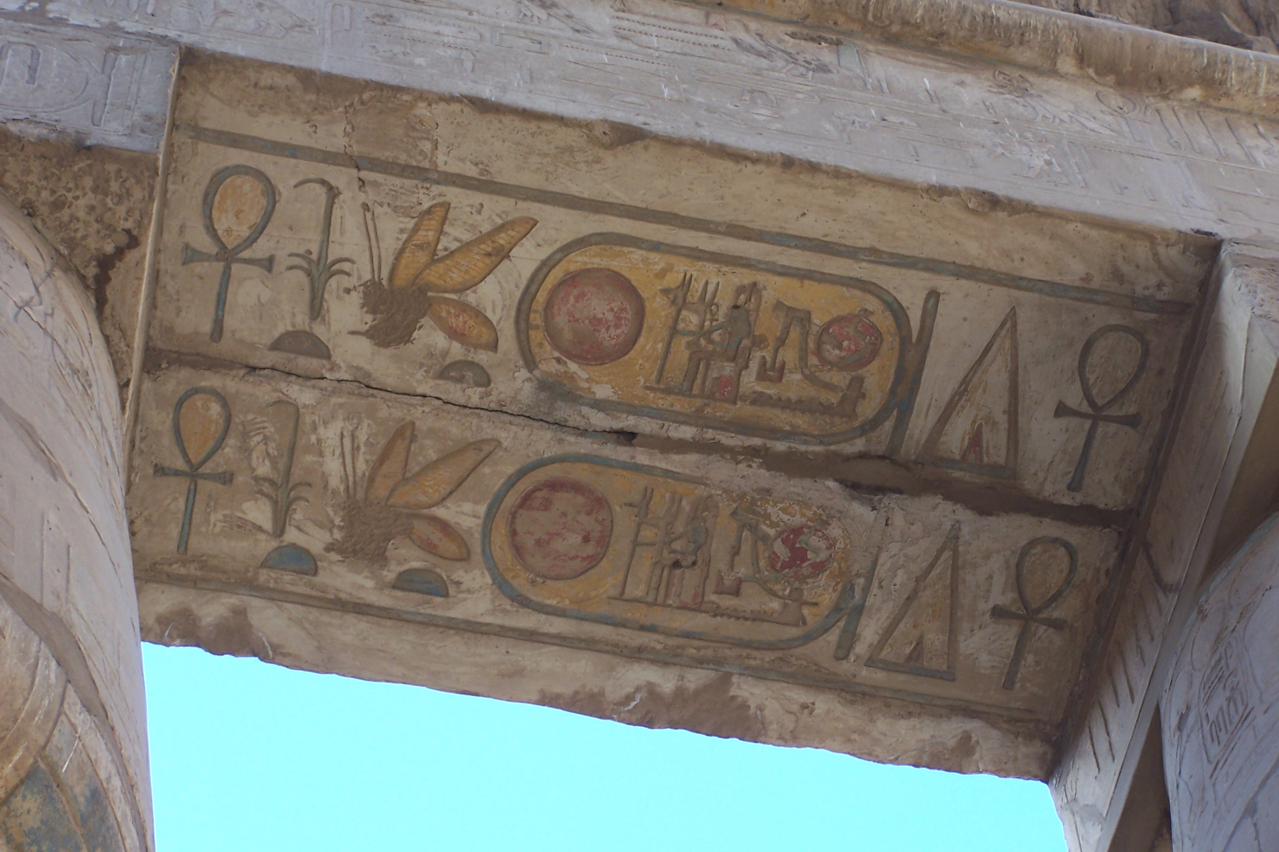 Ramesses II cartouche and phrase on a lintel at Karnak.